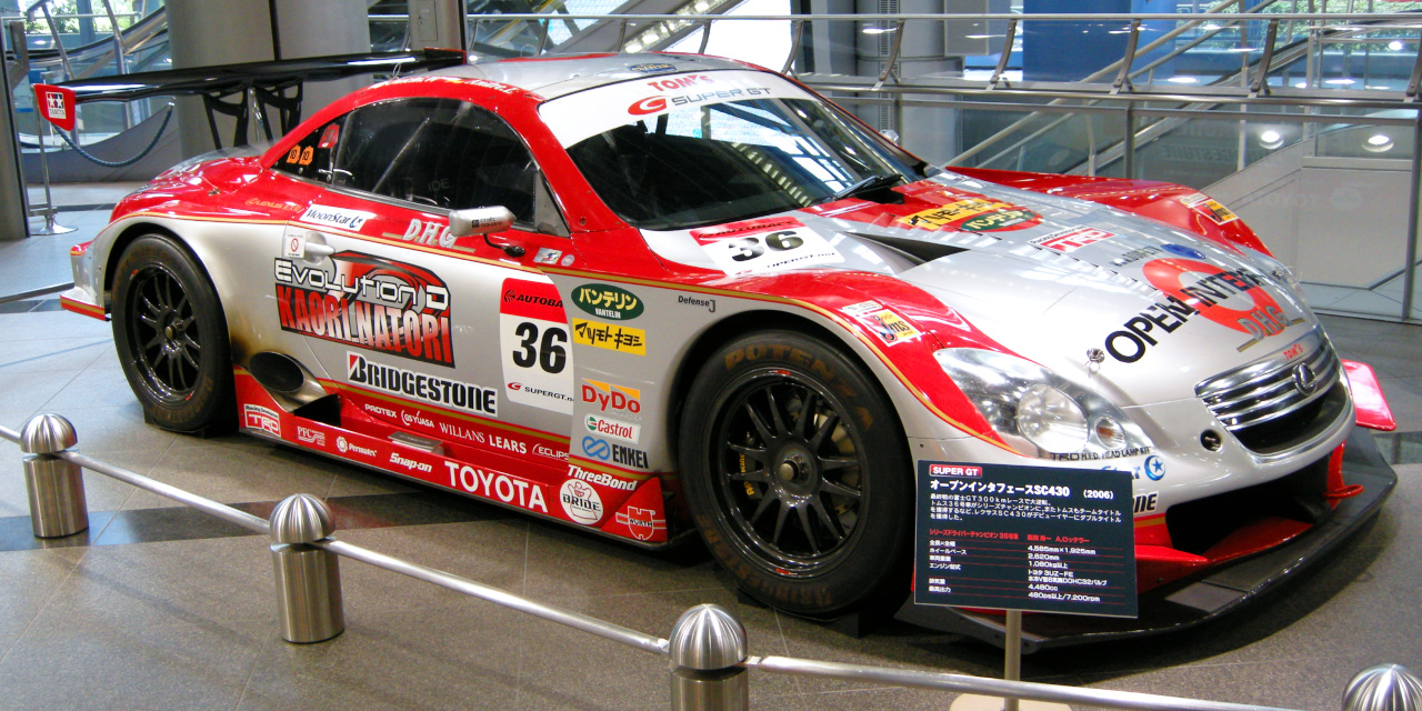 2006 Super GT Open Interface SC430 photographed in aMLUX (Toshima, Tokyo)